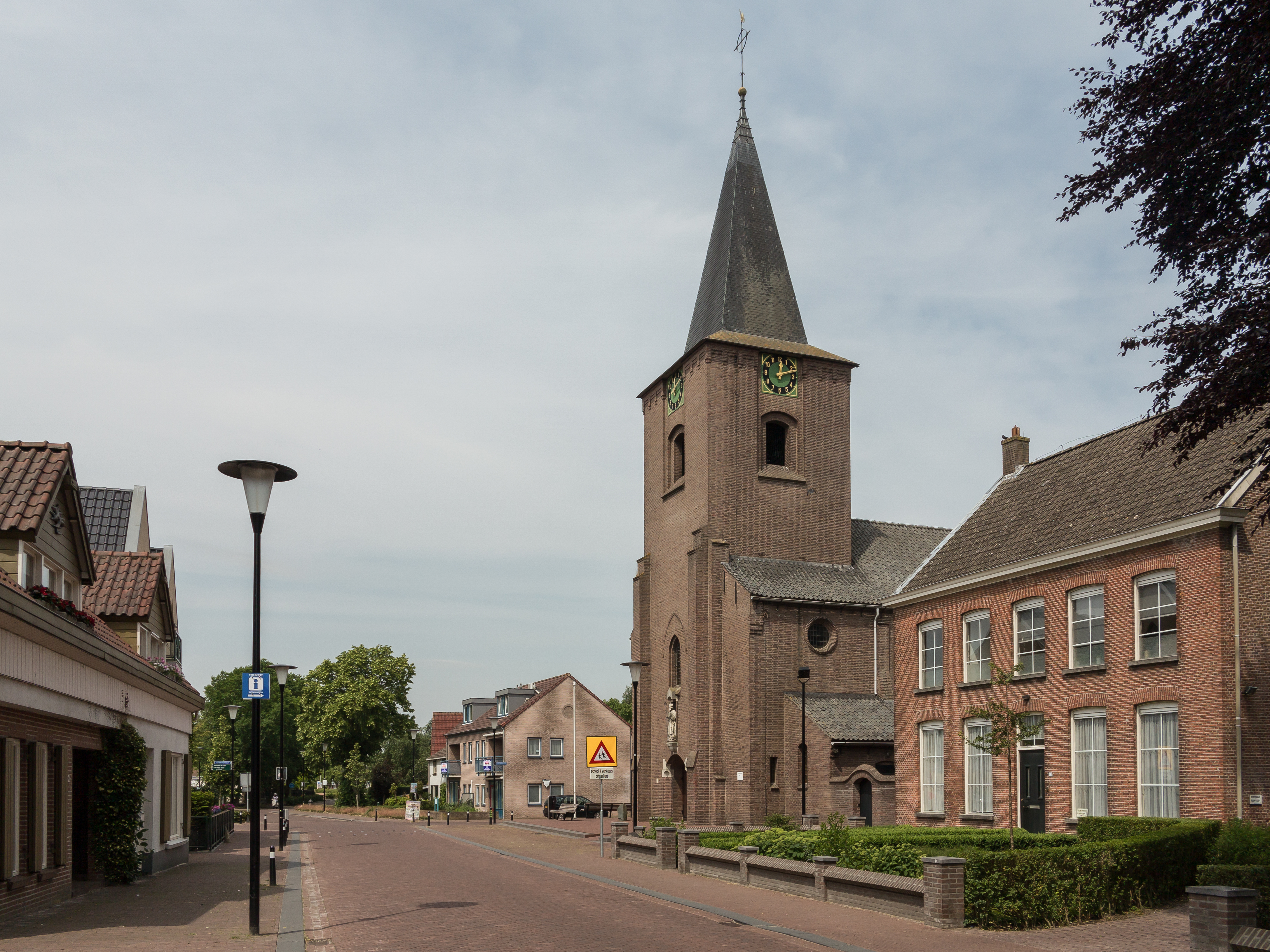 Schijf, church (de Sint Martinuskerk) in the street